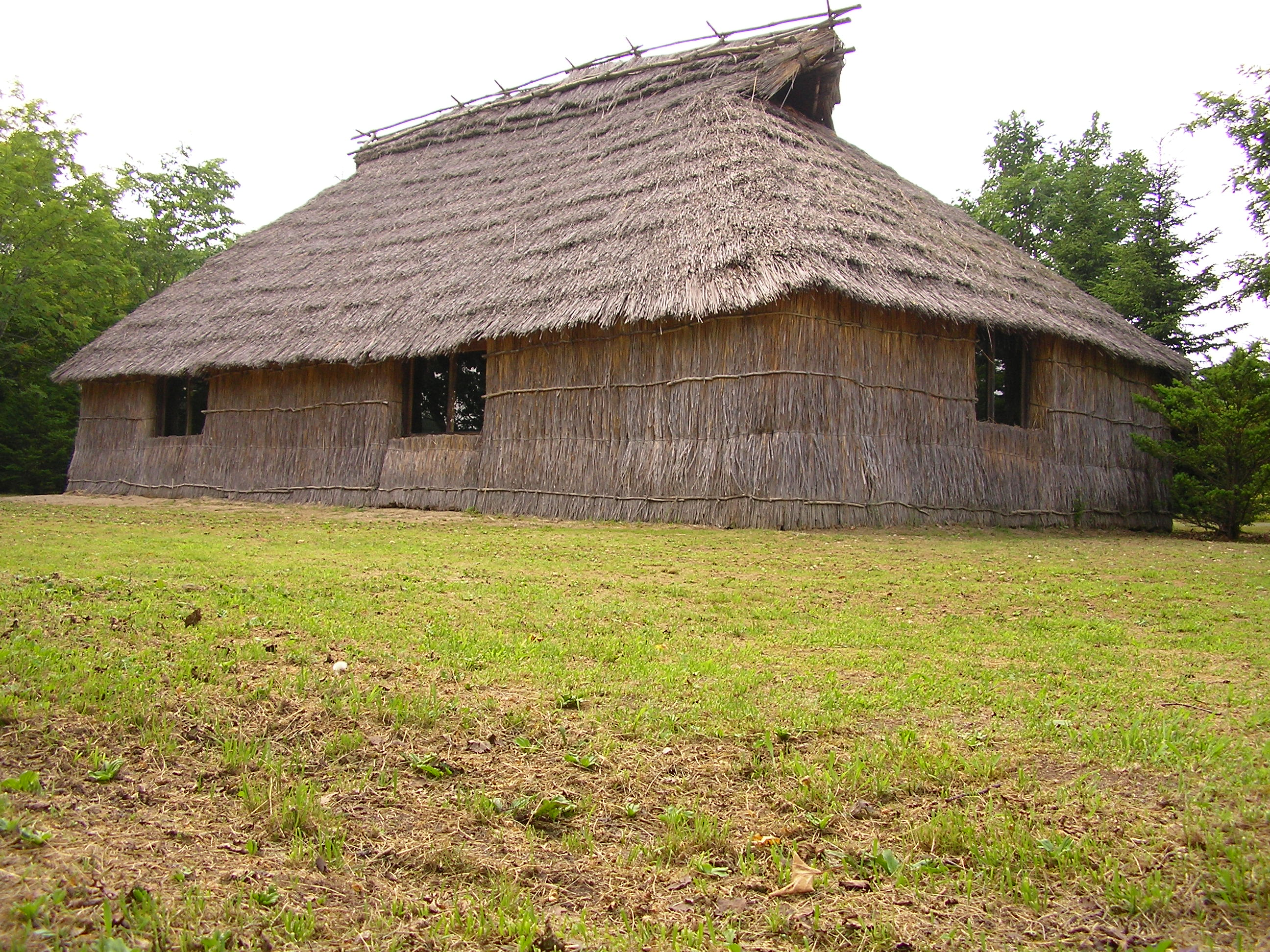 Photo of a reconstruction of an Ainu dwelling (cise) outside of the Nibutani Ainu Culture Museum in Nibutani, Hokkaido, Japan